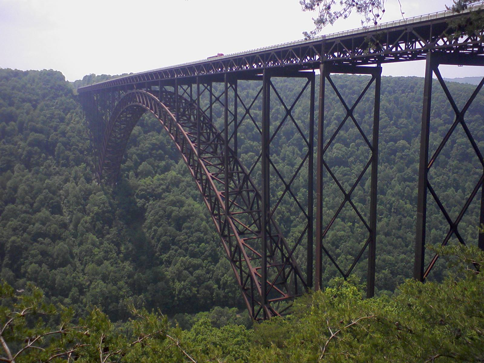 The New River Gorge Bridge, from the overlook